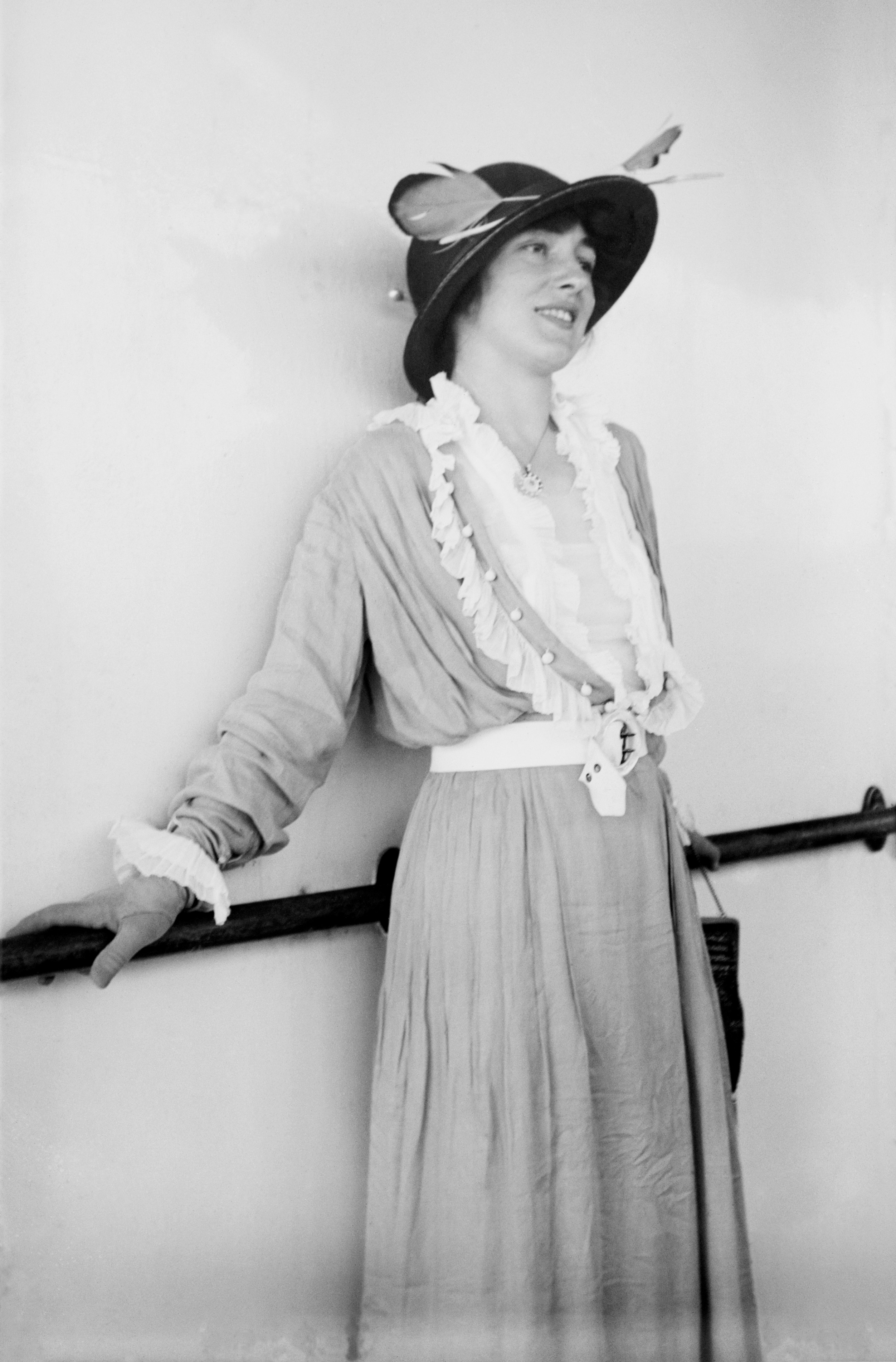 Evelyn Nesbit, now Evelyn Thaw, standing, leaning against railing.